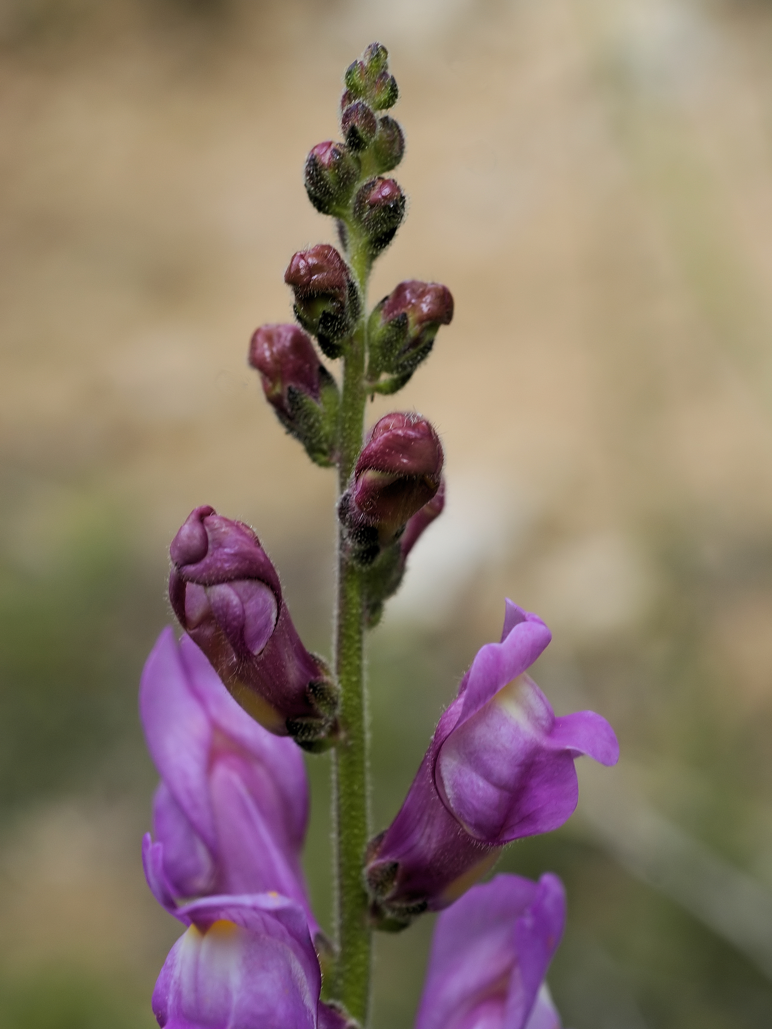 close to el Perelló, Catalonia, Spain